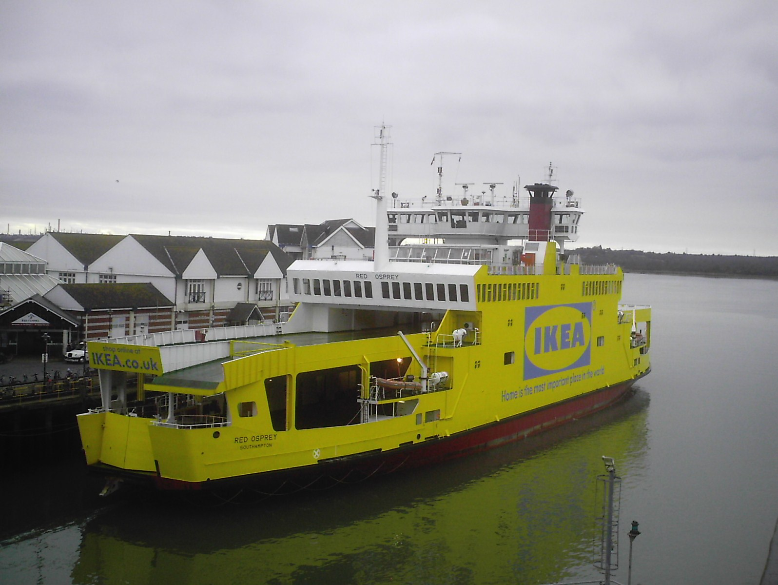 Red Funnel Red Osprey, in a special livery promoting the recent opening of an IKEA store in Southampton, where she is seen berthed. IMO Number: 9064059 MMSI Number: 235006680 Callsign: MTRL5 Length: 94 m Beam: 18 m